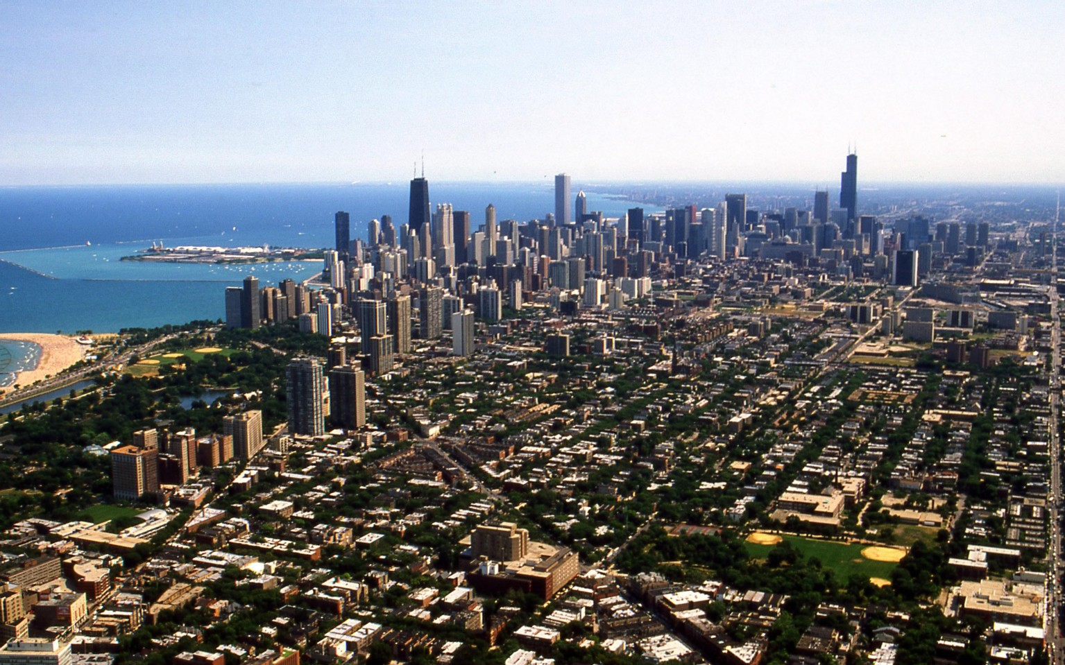 Chicago aerial from north.